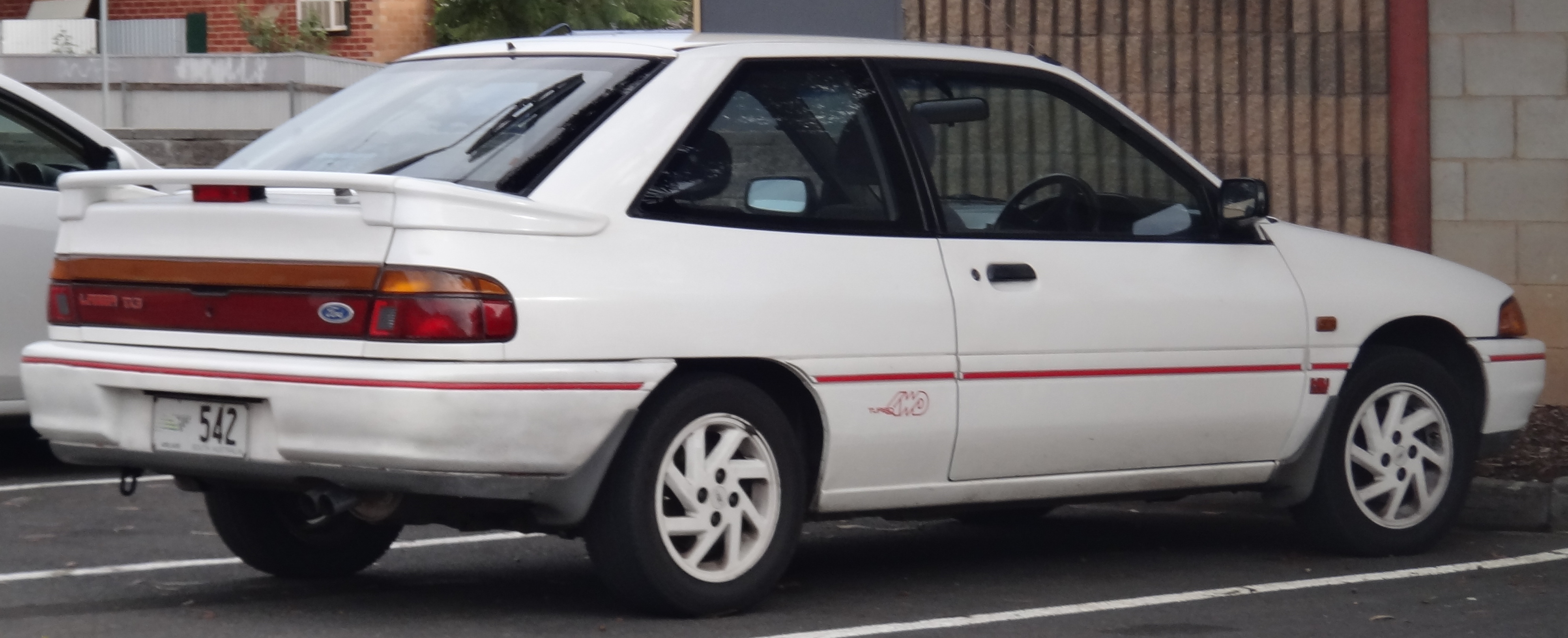 This model Laser was another big seller for Ford in Australia, but by this time, the Laser had grown in size, mainly to meet the US market requirements, where it would be sold as the Ford Escort and Mercury Tracer and sales would now start to decline. By the time this series model Laser was at the end of it's life, Ford Australia would decide to stop building the Laser in Australia and instead import them from Japan. Again, these were based on the Mazda 323 of the same era and with this model, the Laser TX3 4WD, sat at the top of the Laser lineup.